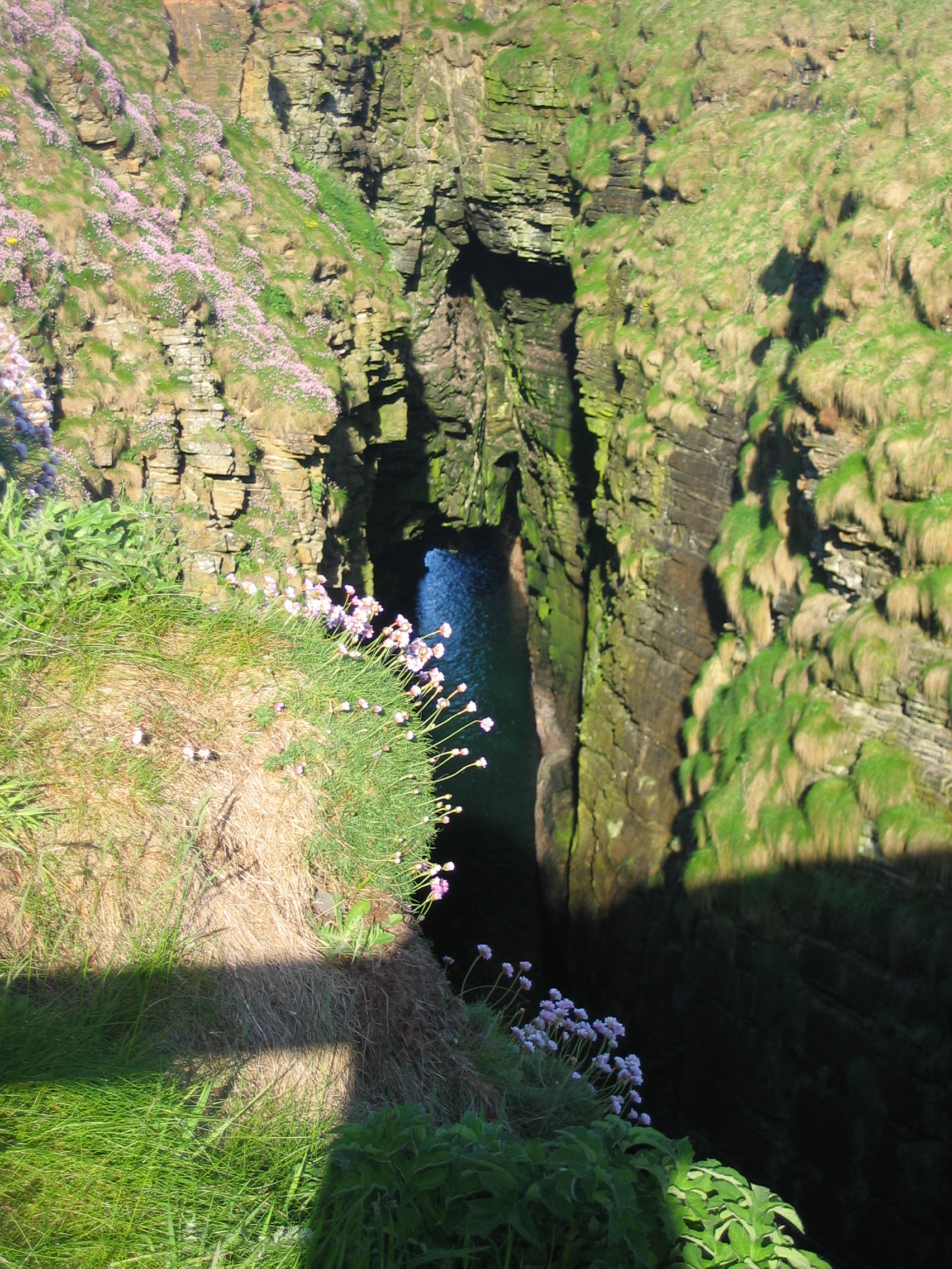 The Gloup, Stroma, Caithness. Although close to the Orkney Islands, Stroma is administratively part of Caithness)